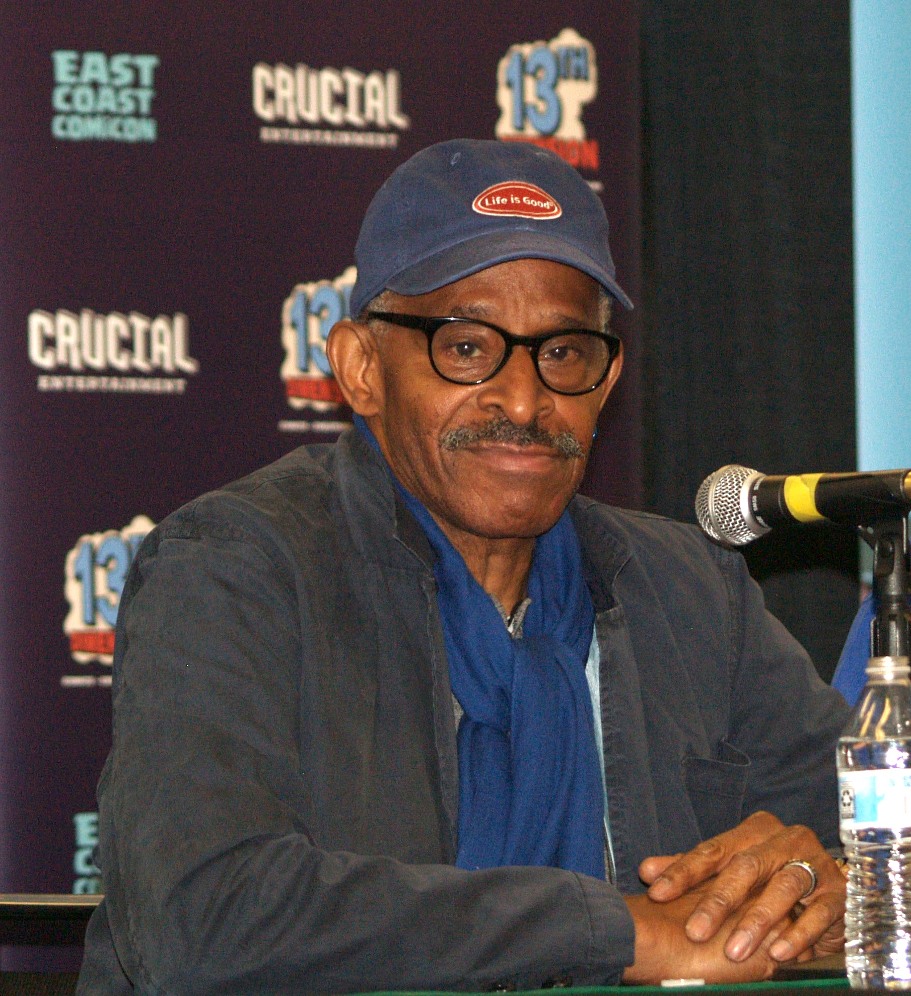 Actor Antonio Fargas, photographed during a panel discussion dedicated to the 1975 – 1979 TV series Starsky & Hutch at the Meadowlands Exposition Center in Secaucus, New Jersey on Sunday, April 29, 2018, Day 3 of the East Coast Comicon. This photo was created by Luigi Novi. It is not in the public domain, and use of this file outside of the licensing terms is a copyright violation.